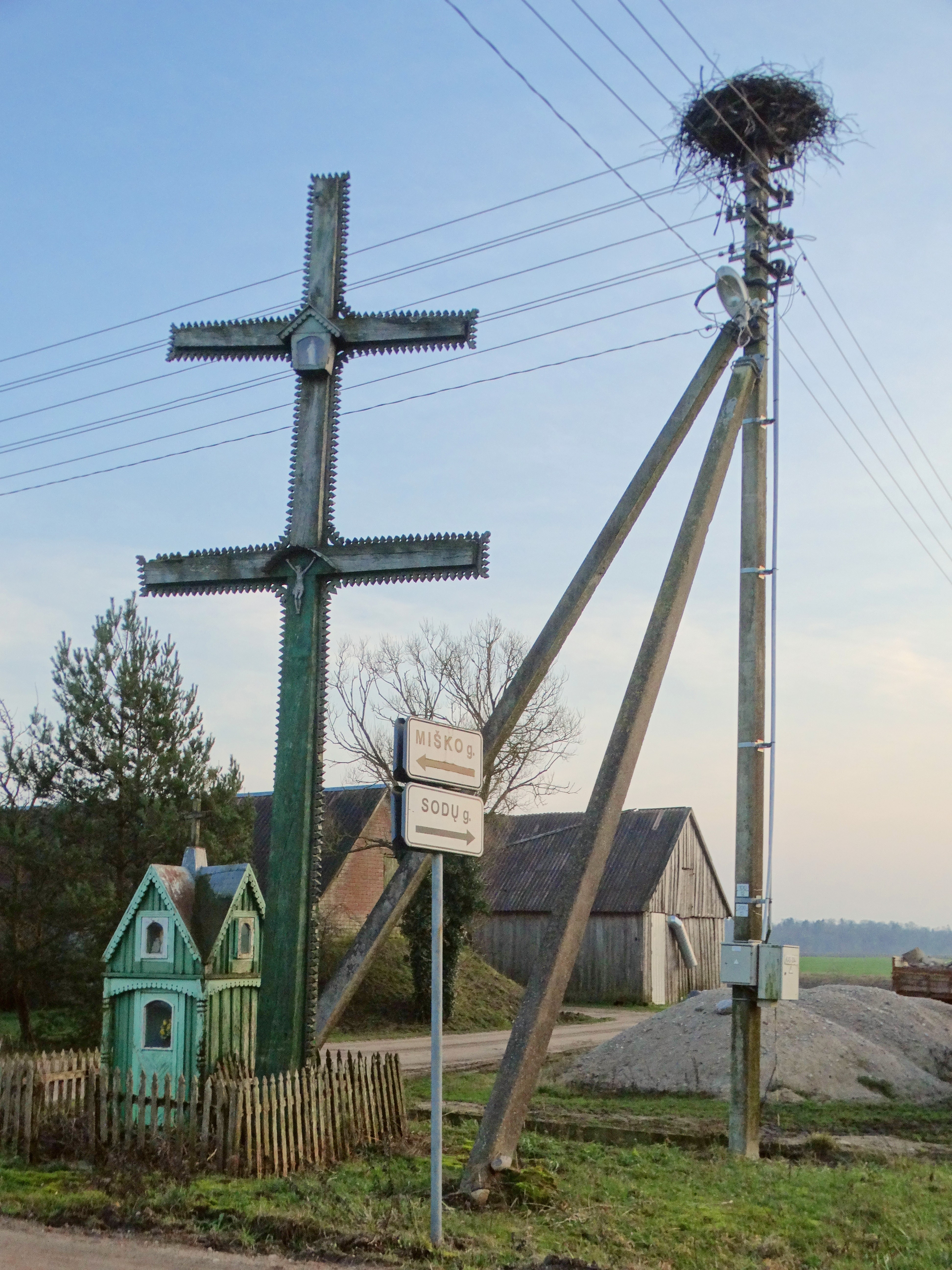 Šlaveitai, Kretinga District, Lithuania